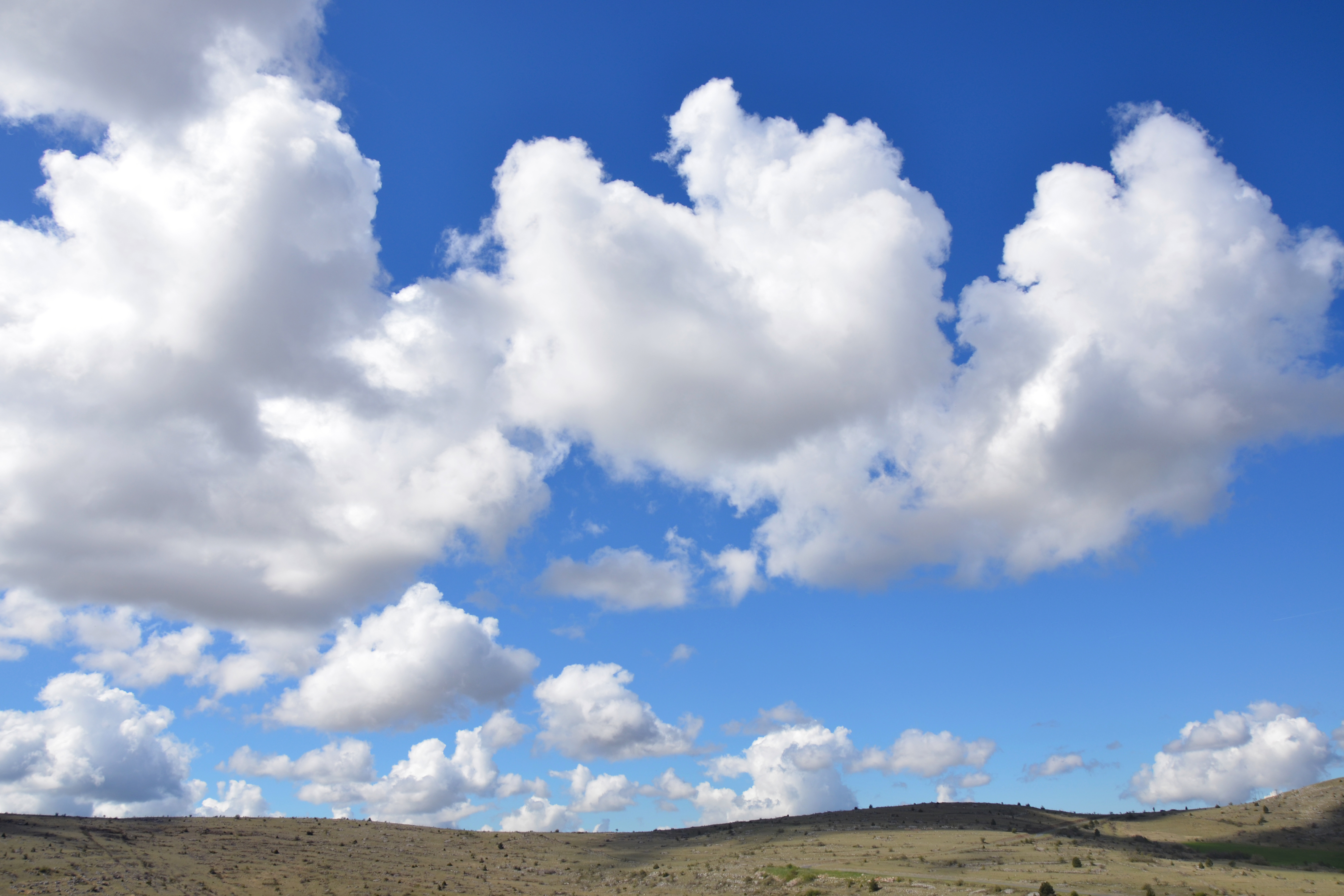 Cumulus clouds over the Causse Méjean, near Nivoliers.